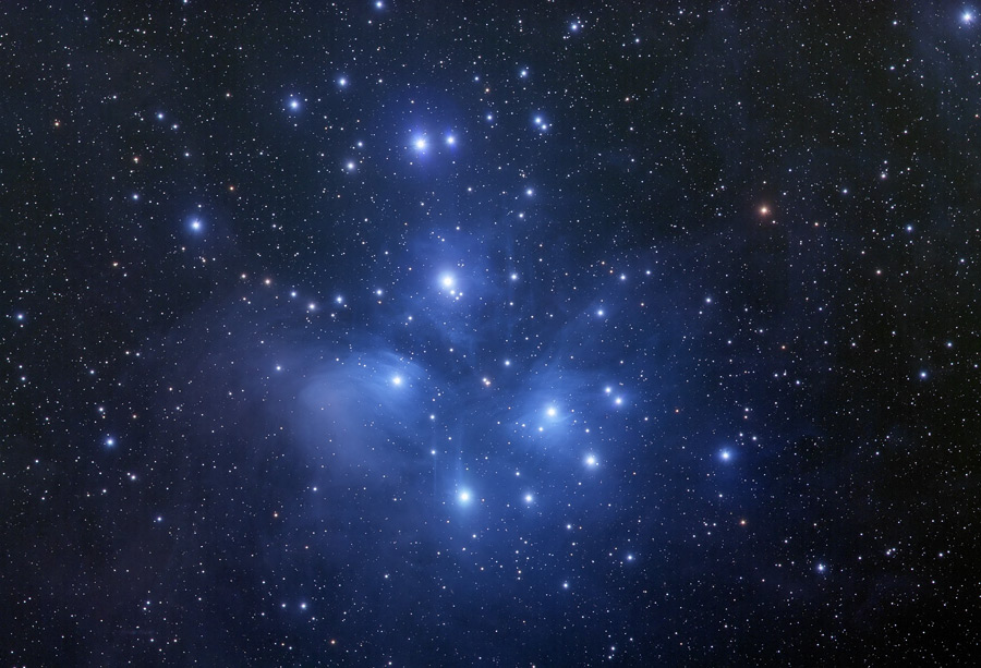 Pleiades star cluster (Messier 45) imaged with SBIG STL-11000 CCD camera and Pentax 105 SDP apo refractor. Taken from Petrova Gora, Croatia.